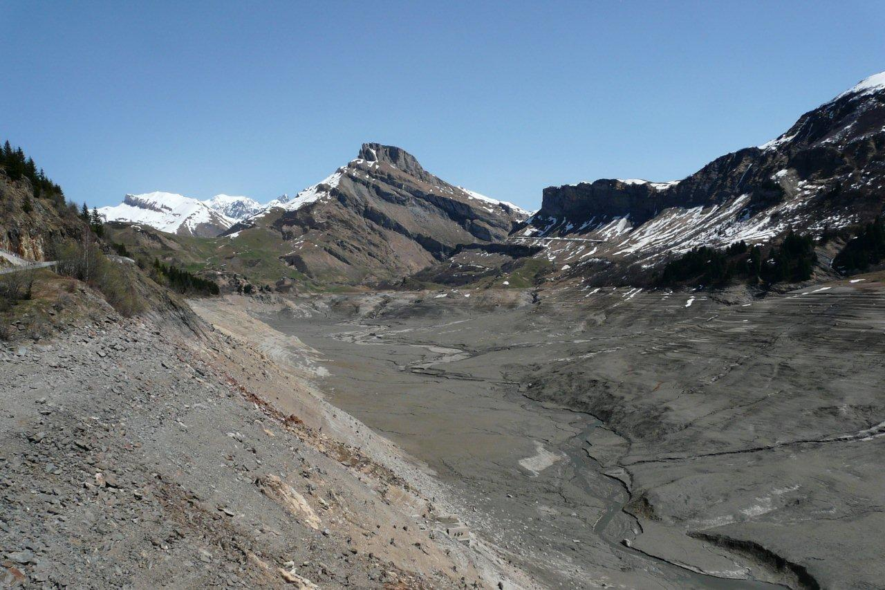 Sight of the lac de Roselend in Savoie (France), empty in order to check the dam.